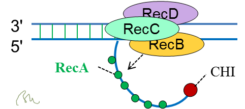 RecA loaded onto the loop (with CHI site) has been cut.